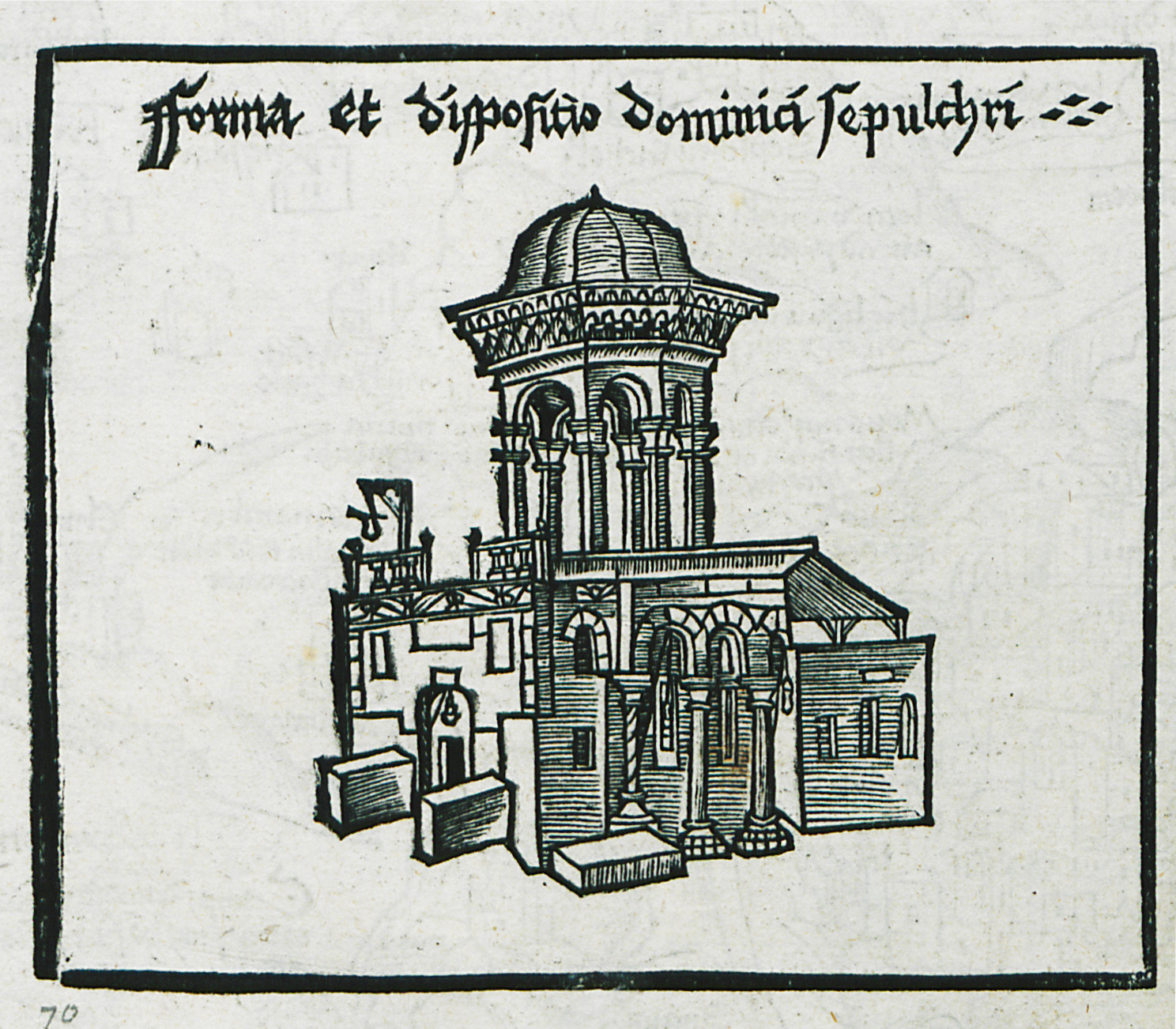 Bernhard von Breydenbach. Peregrinationes in Terram Sanctam, Speyer, 1486 (1st ed.) / 1502 (2nd ed.).